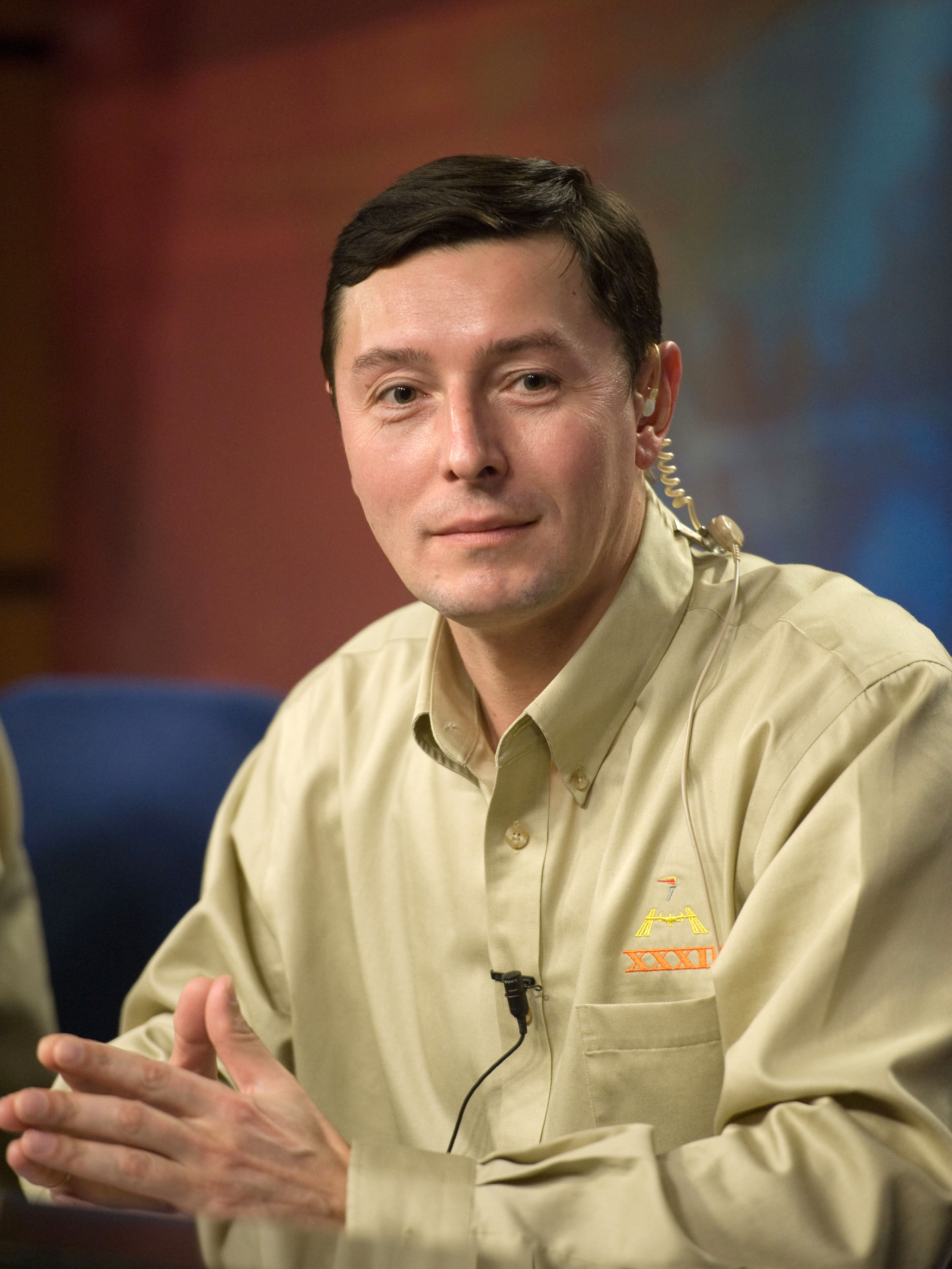 Russian cosmonaut Sergei Revin, Expedition 31/32 flight engineer, fields a question from a reporter during an Expedition 31/32 preflight press conference at NASA's Johnson Space Center.